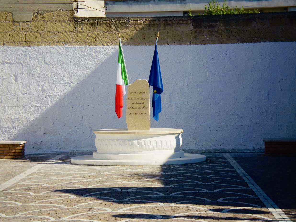 Piazza Dante smlf